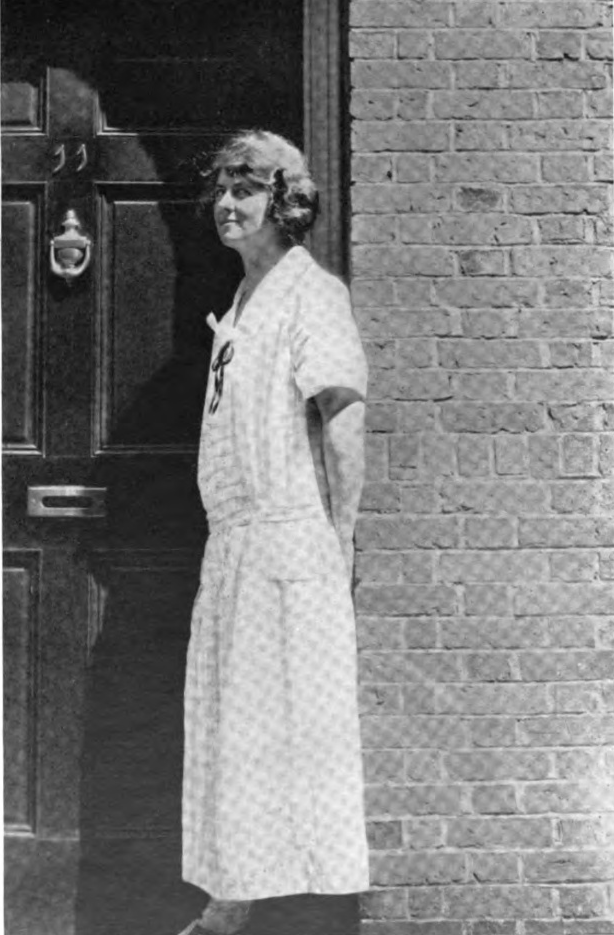 The spiritualist medium Mina Crandon.